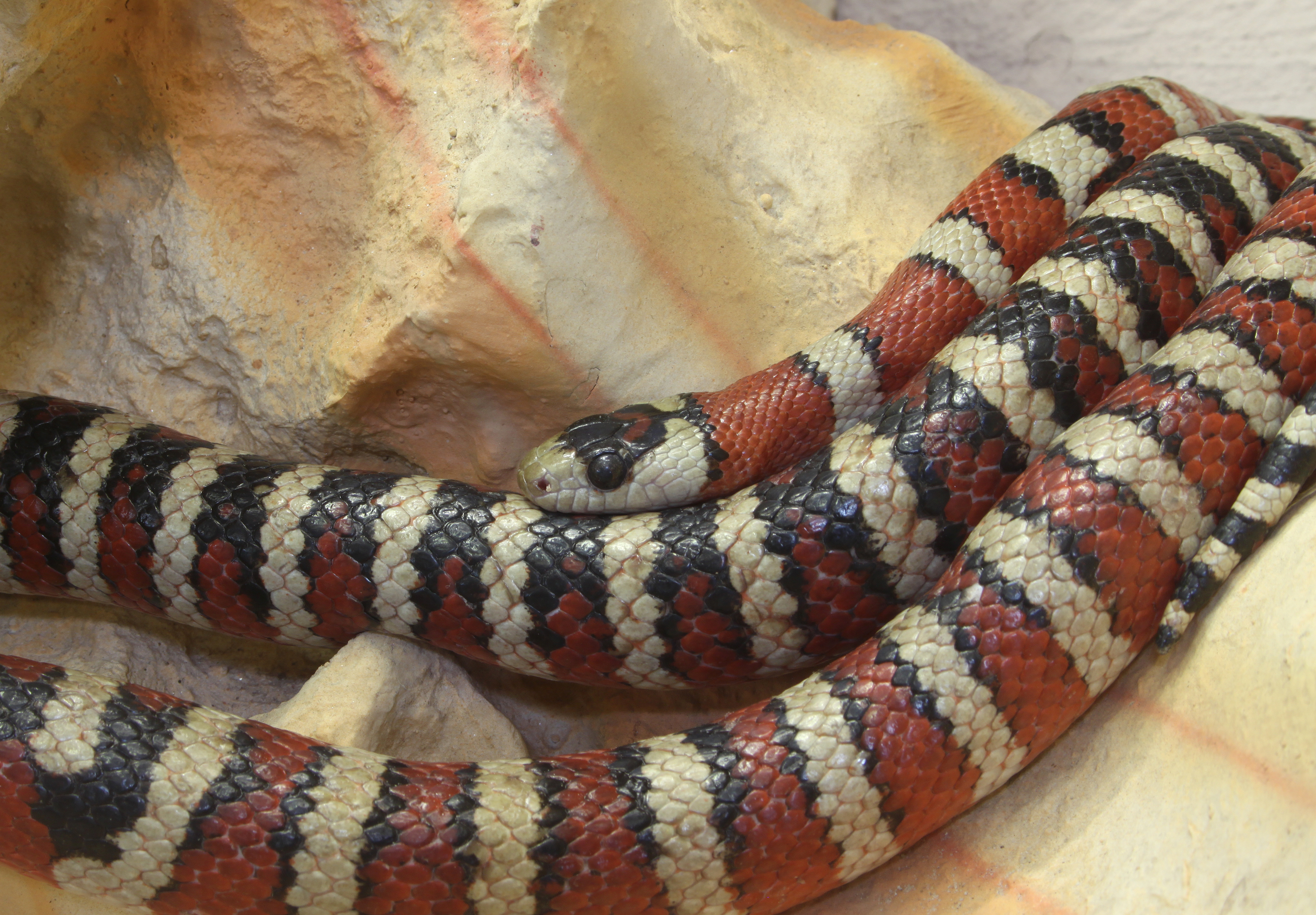 Arizona Mountain Kingsnake, Lampropeltis pyromelana woodini , Family: Colubridae, Location: Germany, Augsburg, Zoo